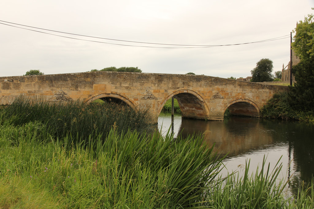 Bridge over the River Nene at Fotheringhay, built by George Portwood of Stamford in 1722, replacing an earlier bridge of 1573. See: Fotheringhay Bridge